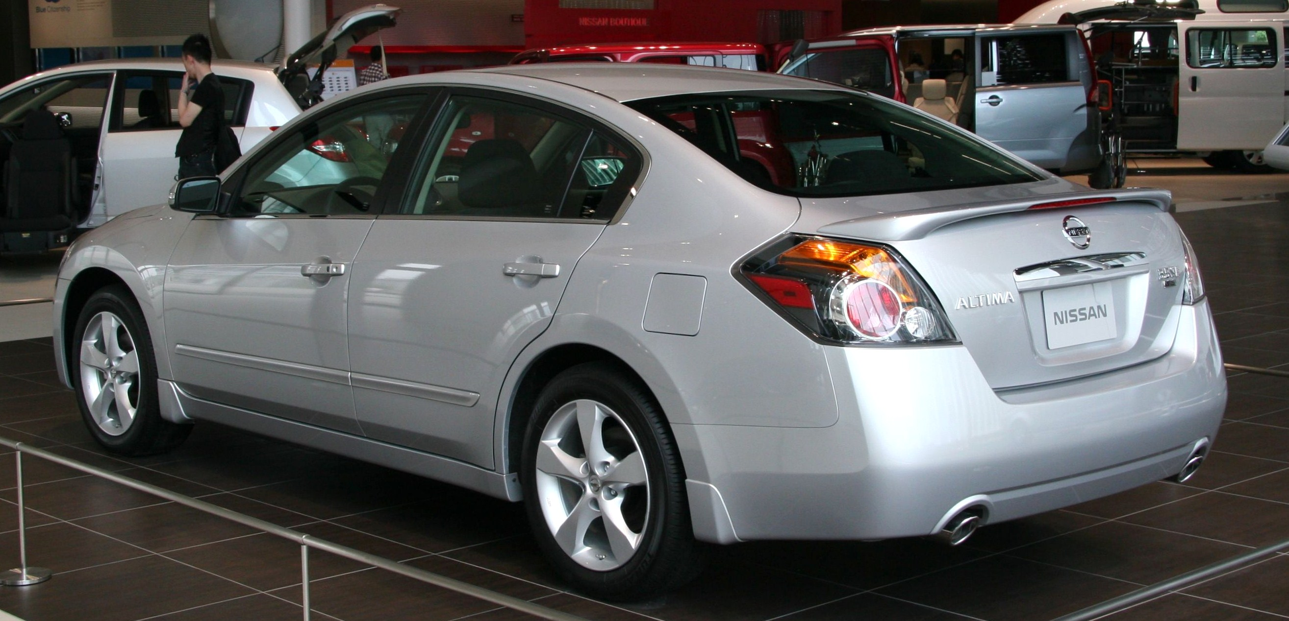 NISSAN ALTIMA